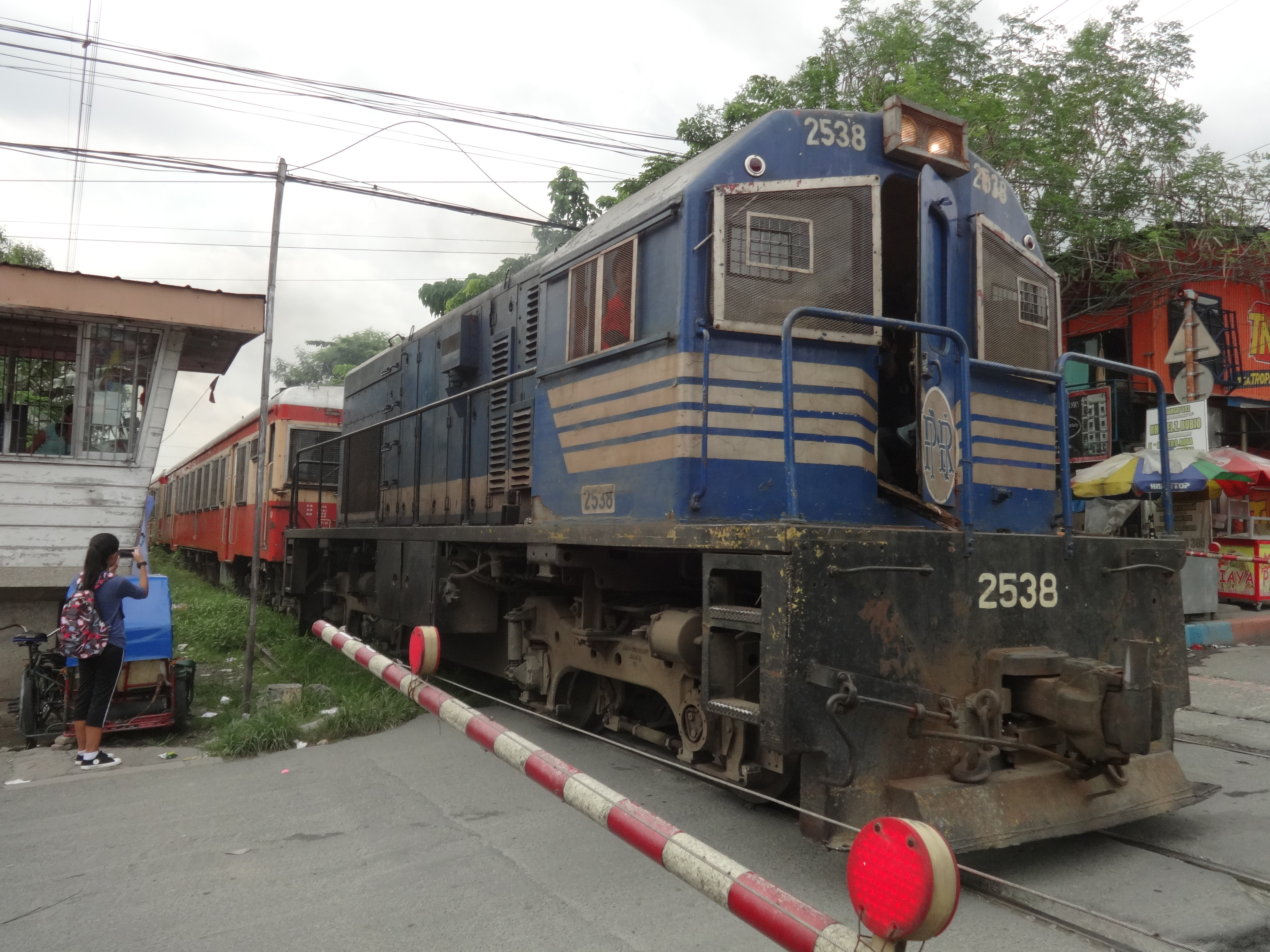 PNR Kiha 59 train at Anonas Street, Santa Mesa, Manila